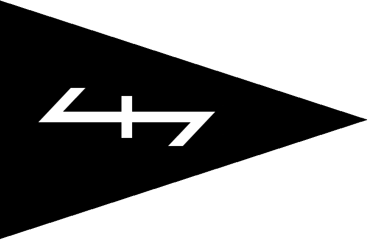 Werewolf organization pennant